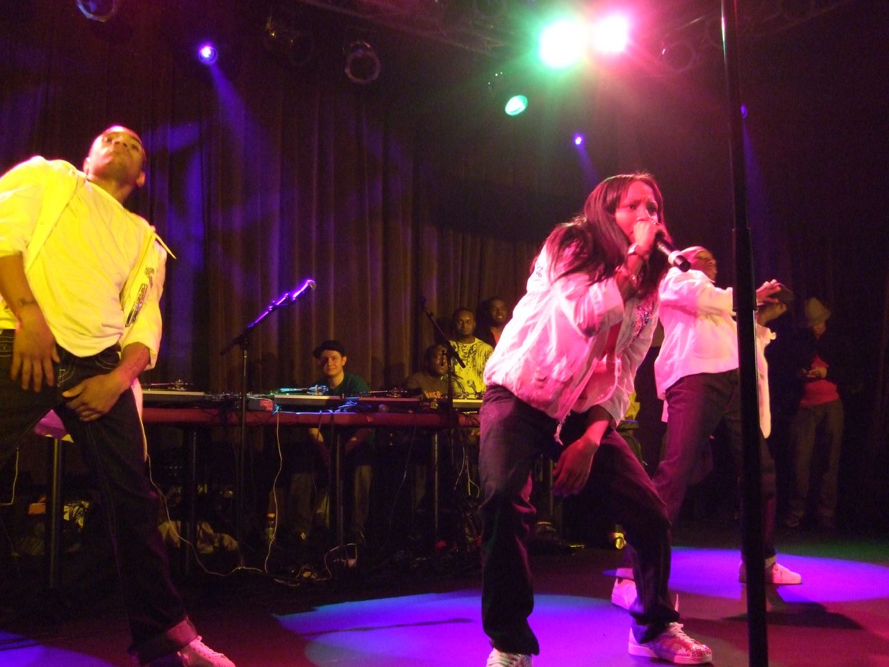 Lil Mama live in New York.